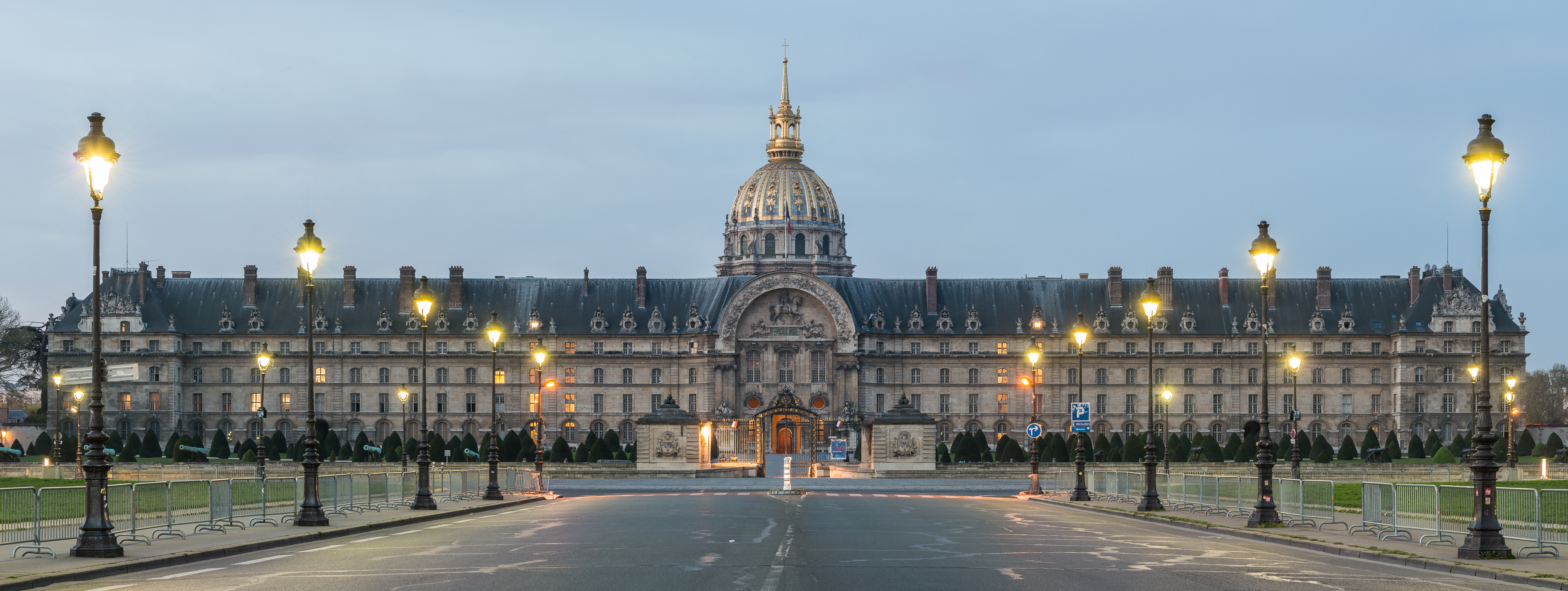 The north facade of the Hôtel des Invalides, seen at twilight